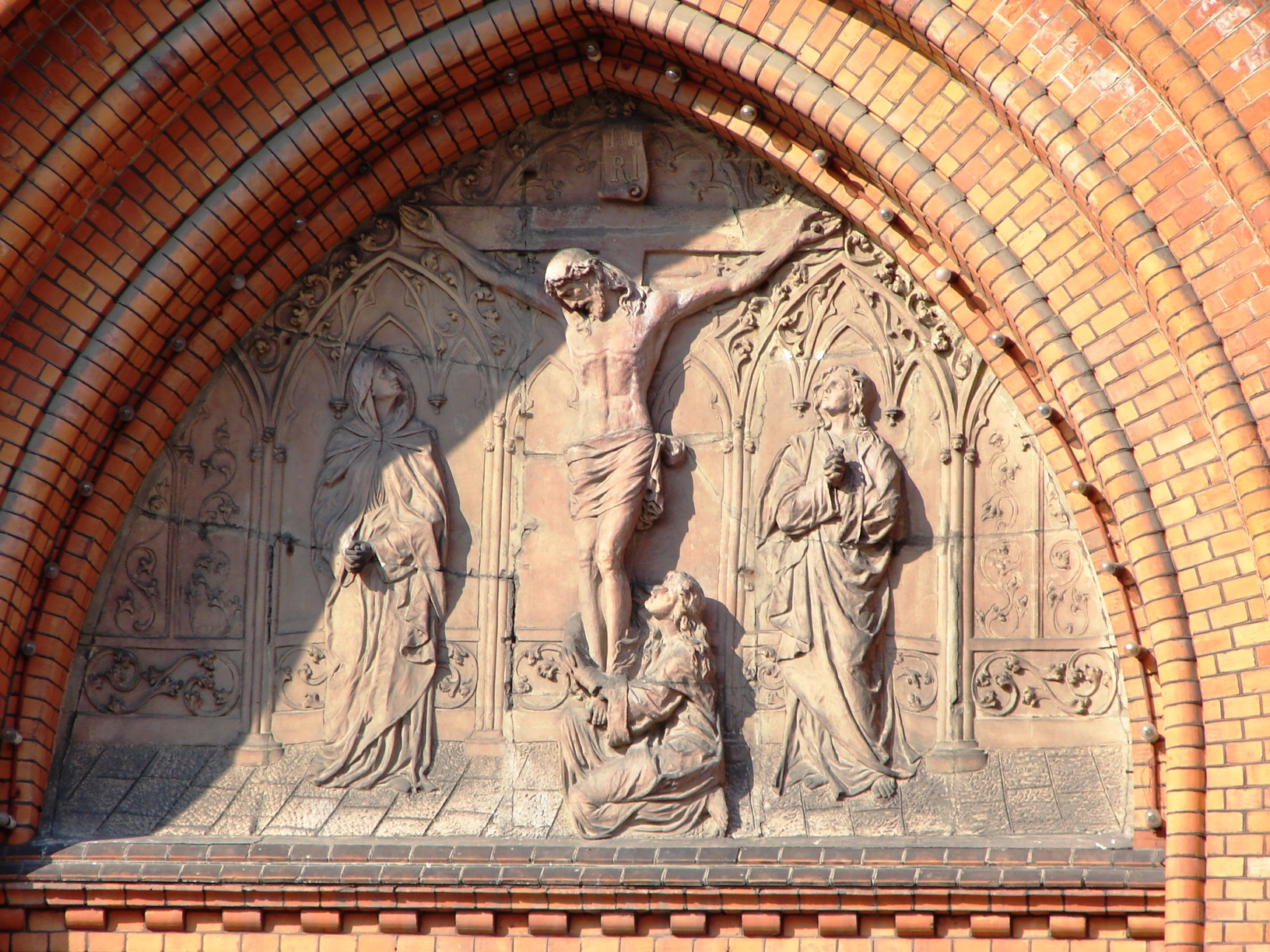 Relief above the main entrance to the cathedral in Białystok, Poland